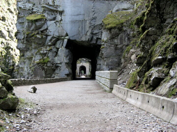 Quintette Tunnels of the Kettle Valley Railway, in Coquihalla Canyon Provincial Park, near Town of Hope, British Columbia, Canada. Also known as the Othello Tunnels.